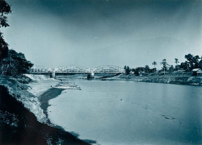 Railway bridge across the Citarum river, Tanjungpura